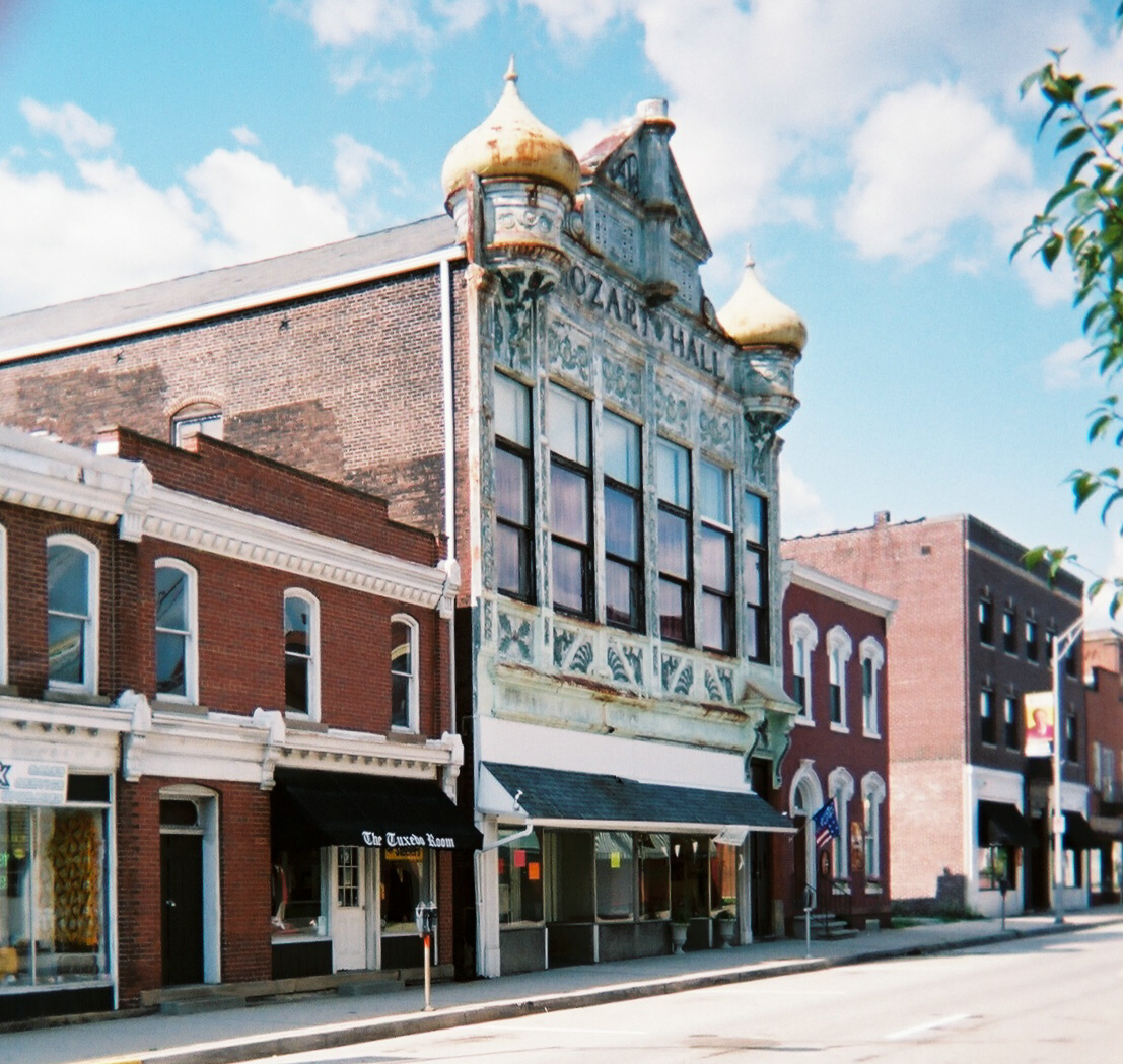 Mozart Hall (built 1890) at 338 Main Street, Latrobe, Pennsylvania.